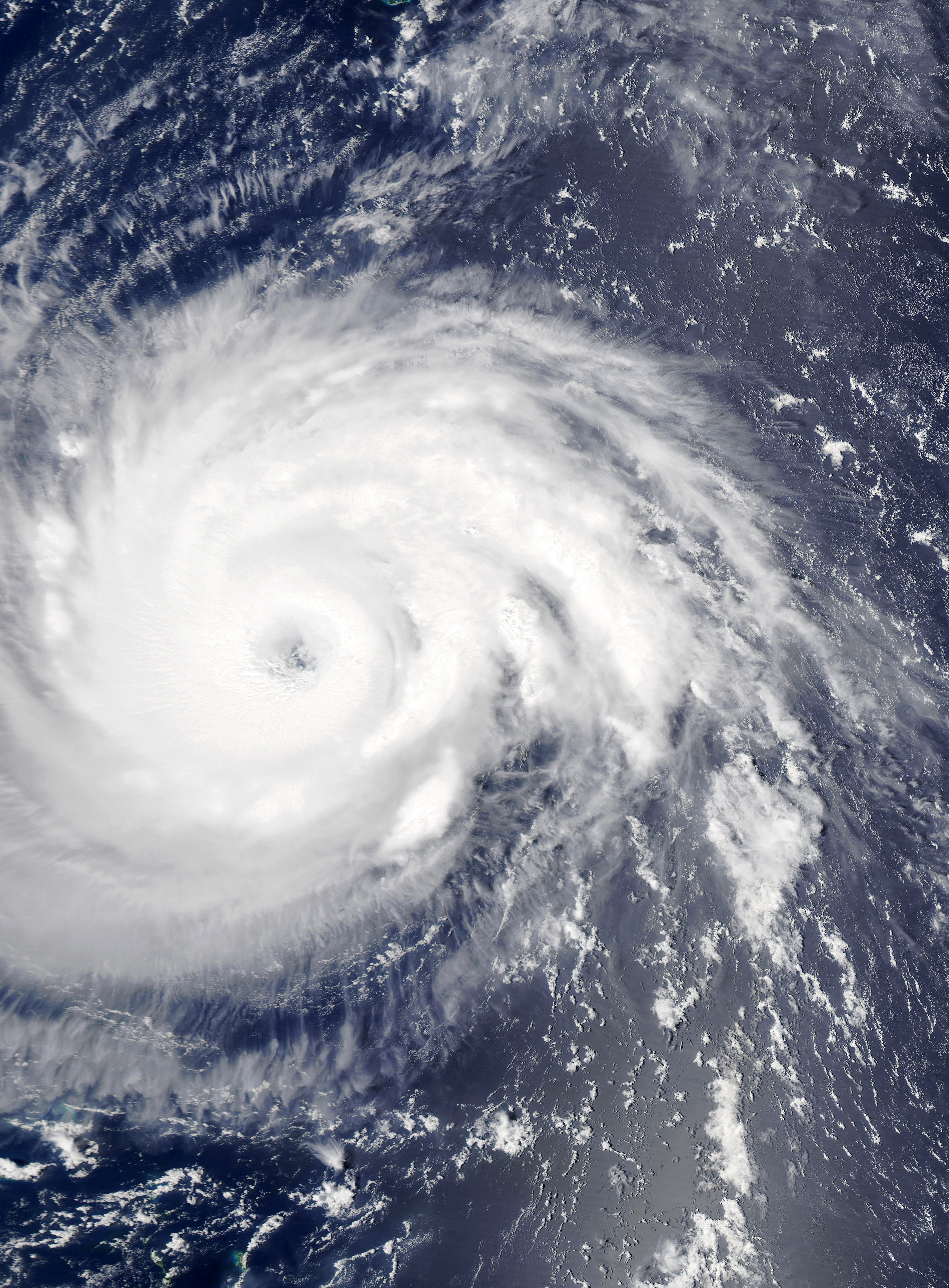 Hurricane Katia on September 5, 2011, becoming very structurally impressive as it nears major hurricane status.